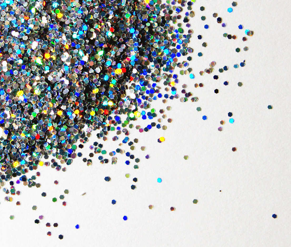 Photo of Glitter Particles